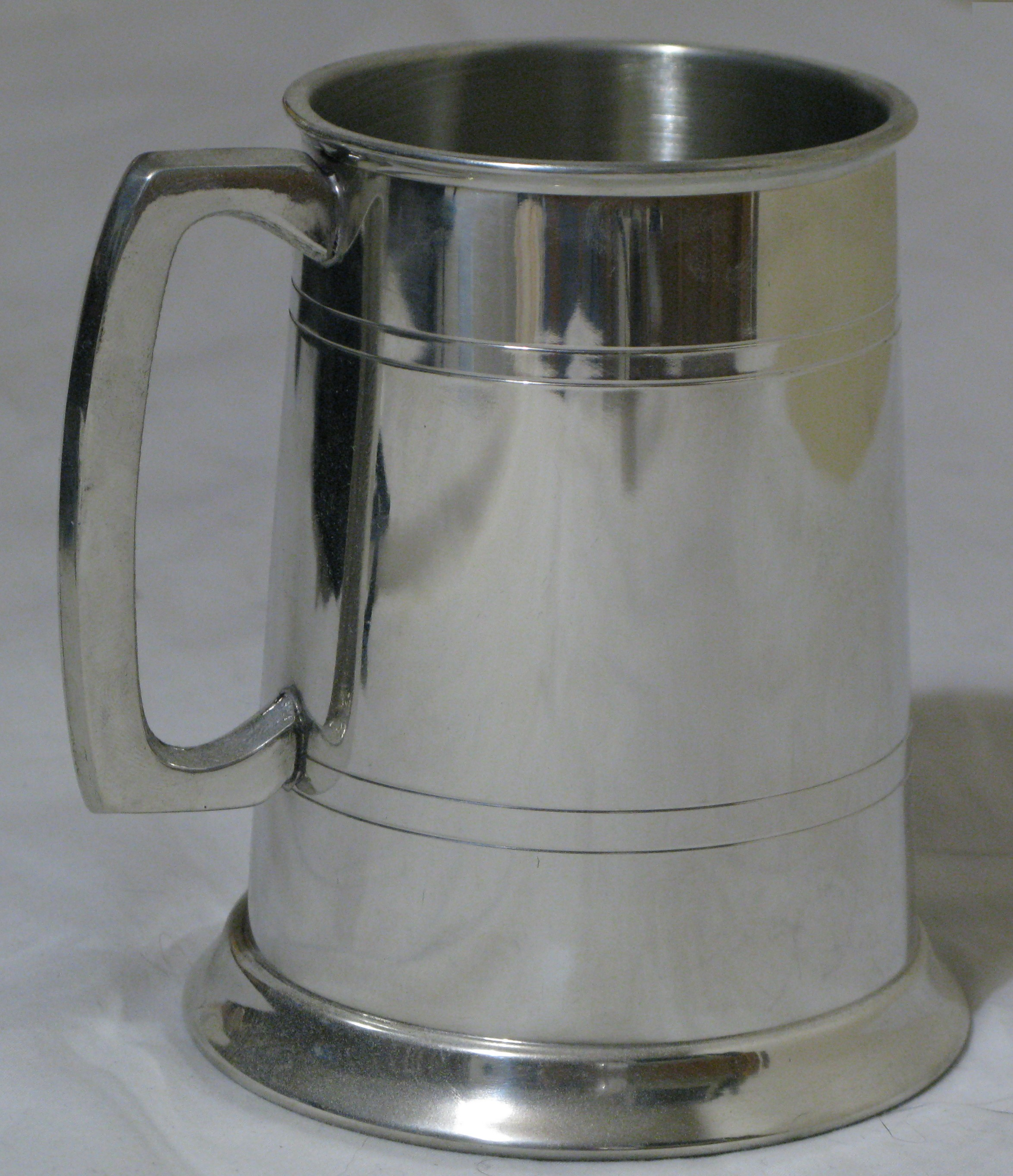 A tankard about a pint in size.